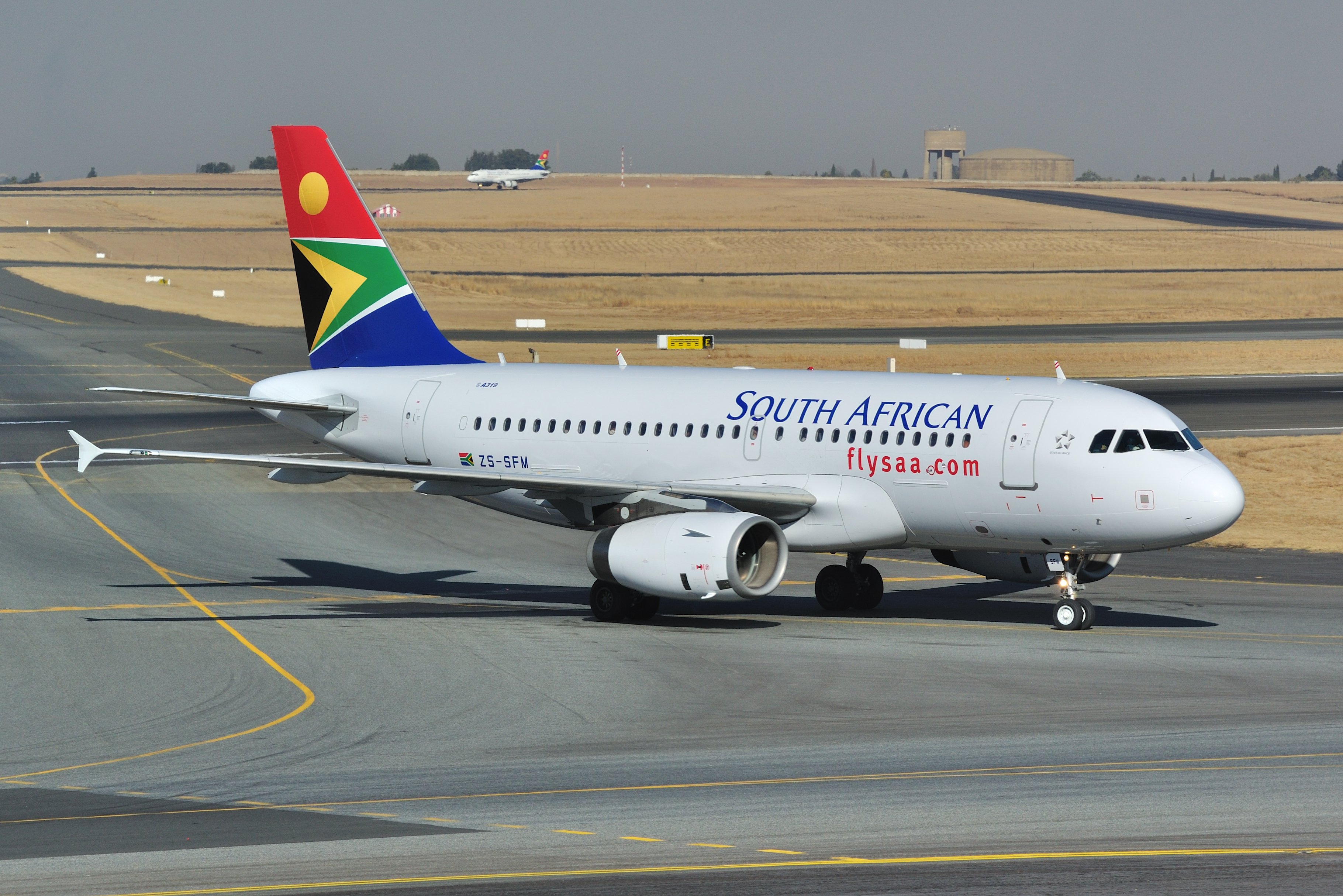 South Africa, spotting at OR Tambo International Airport